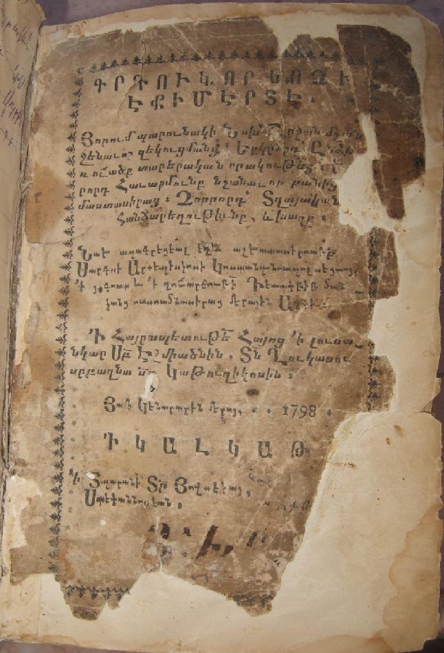 First page of a 1798 Kalkata edition of Efimerte or Yepremverdi (Armenian book of prophecies and predictions)